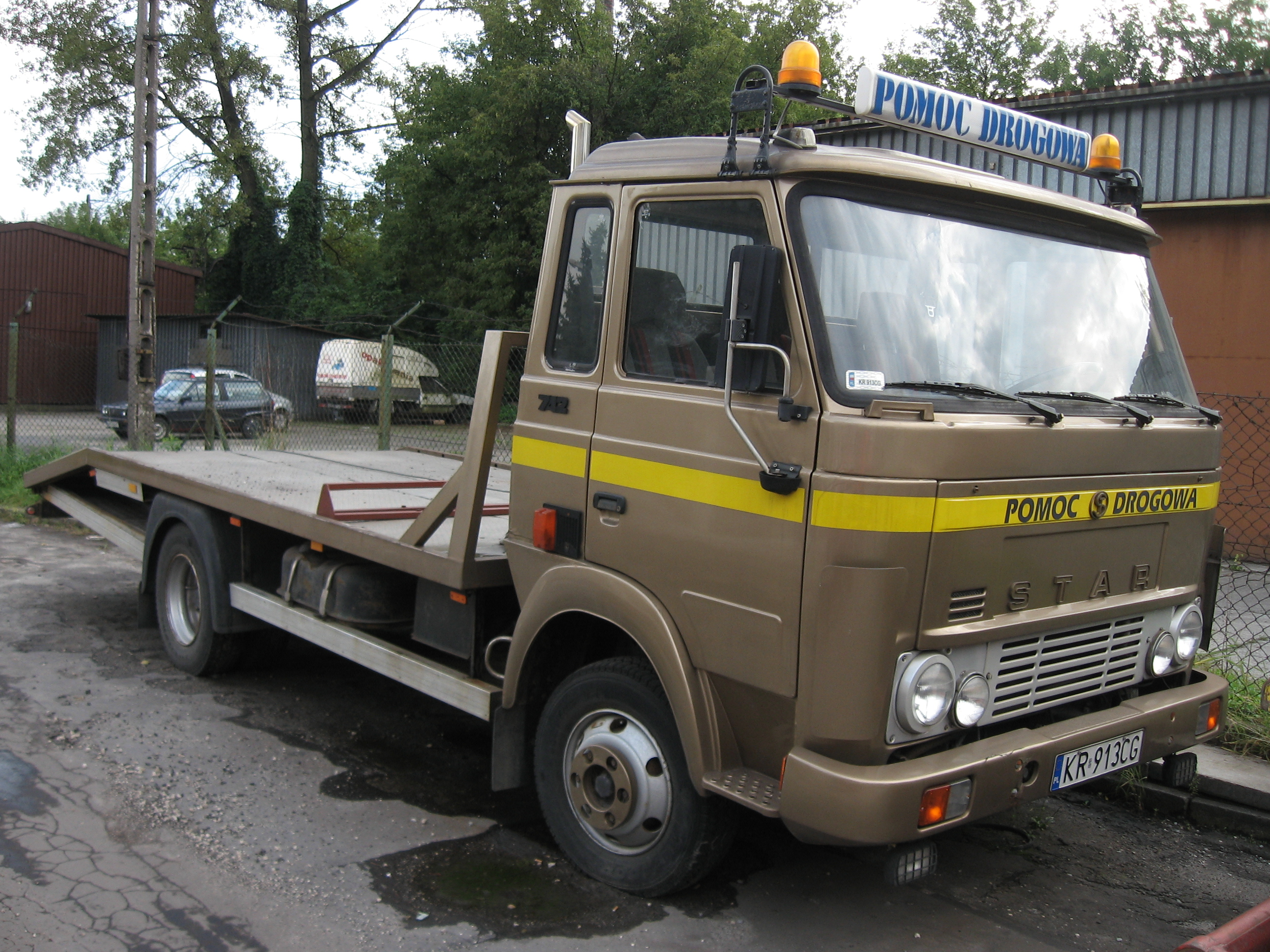 Star 742-based roadside assistance truck on Zaułek street in Kraków, Poland.